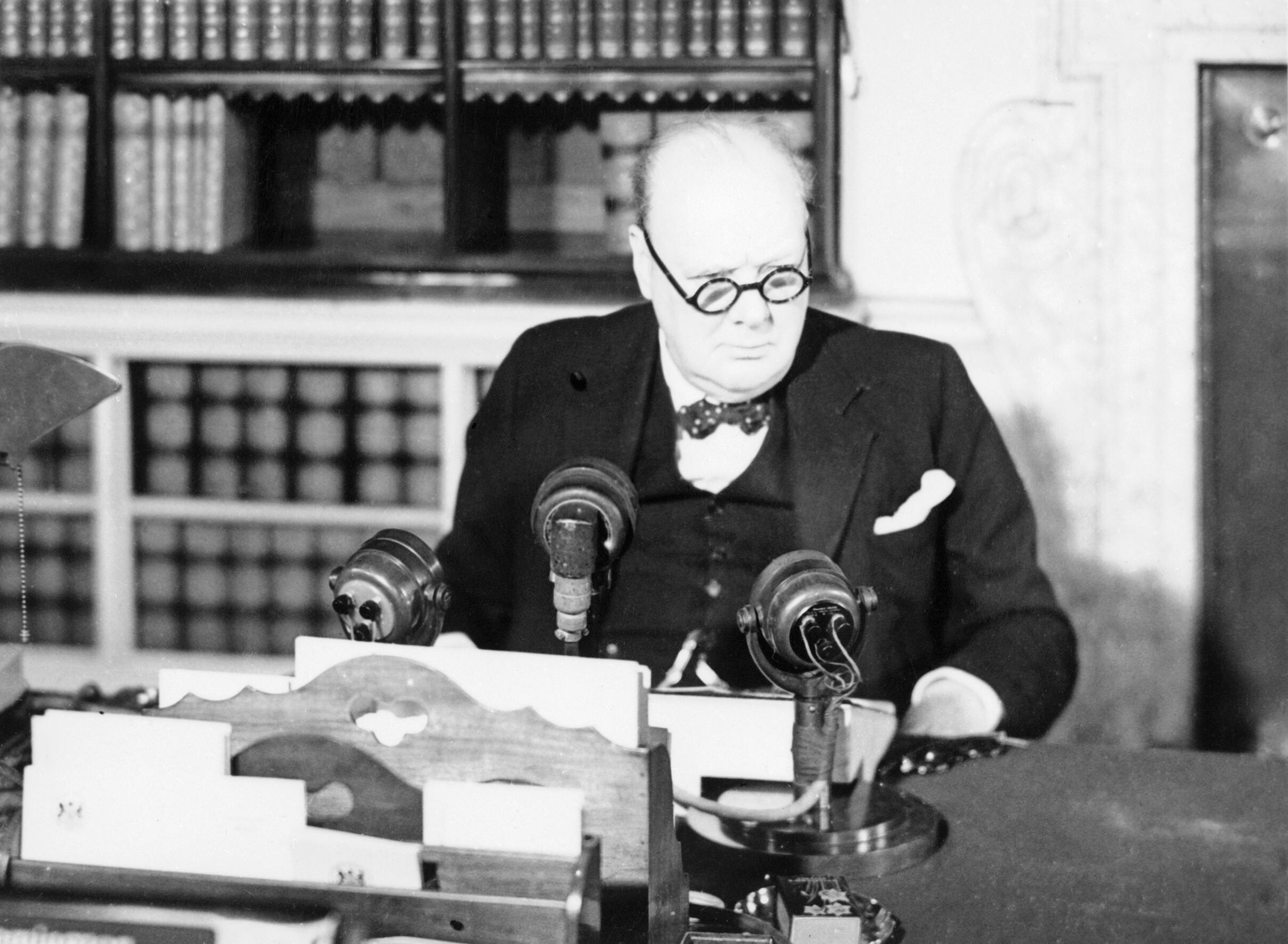 Winston Churchill at a BBC microphone about to broadcast to the nation on the afternoon of VE Day, 8 May 1945. The Prime Minister Winston Churchill at a BBC microphone about to broadcast to the nation on the afternoon of VE Day.